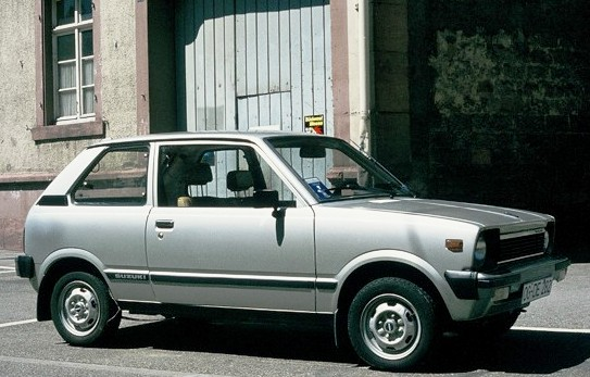 Suzuki Alto 2 door early 1980s